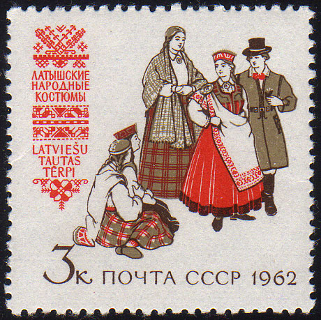 Postage stamp issued by the Soviet Union 1962 depicting traditional Latvian costumes.